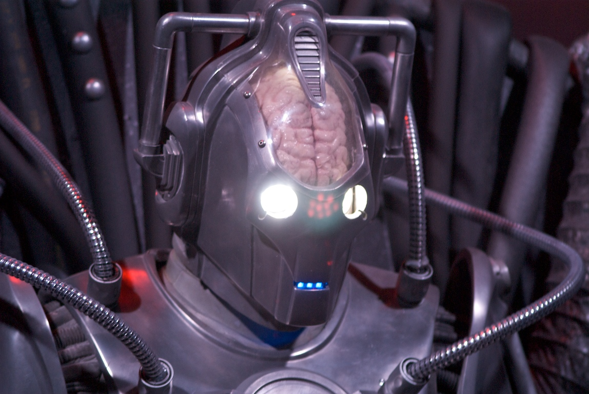 Cybermen Doctor Who Experience